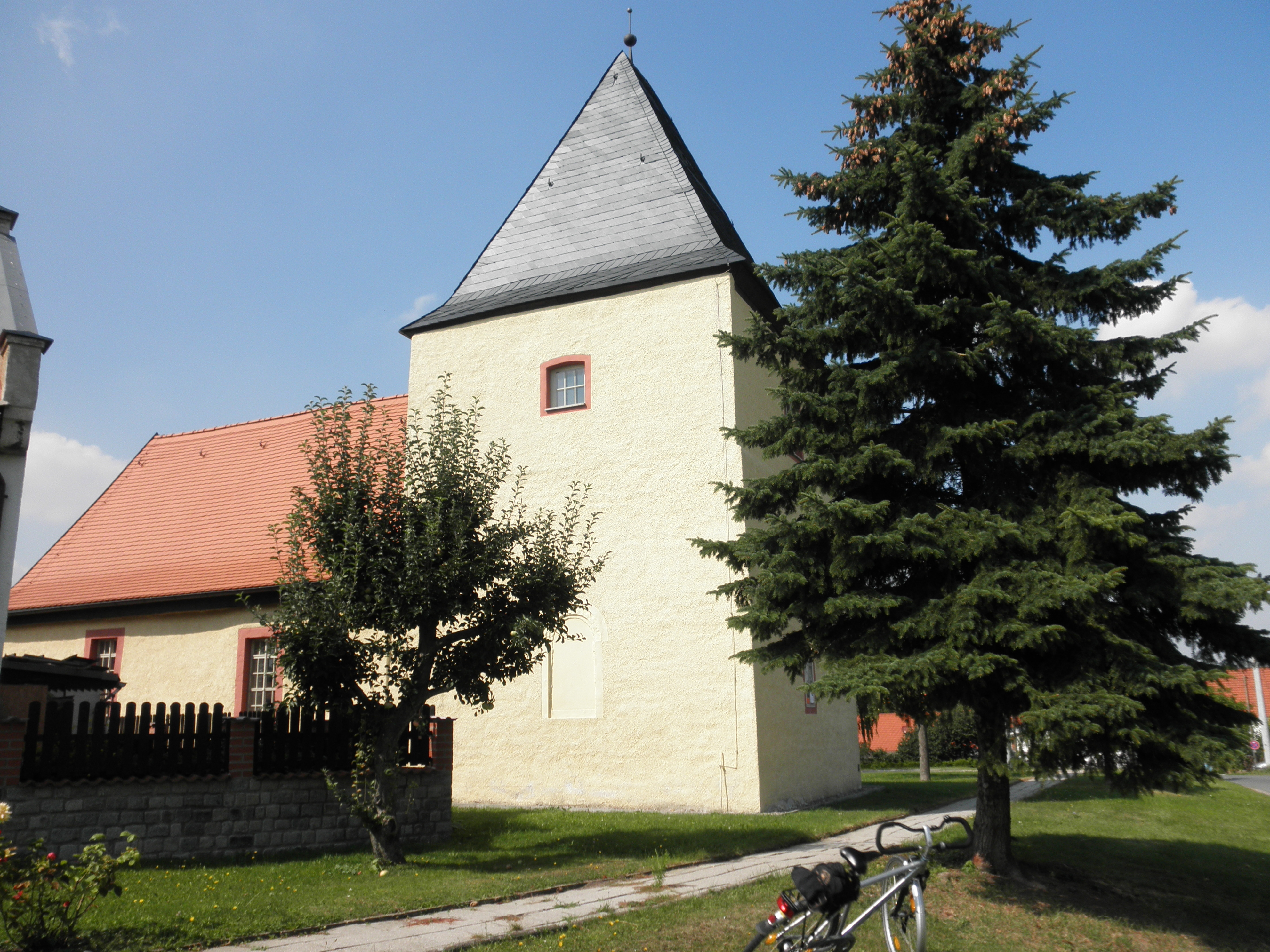 Church in Stedten am Ettersberg